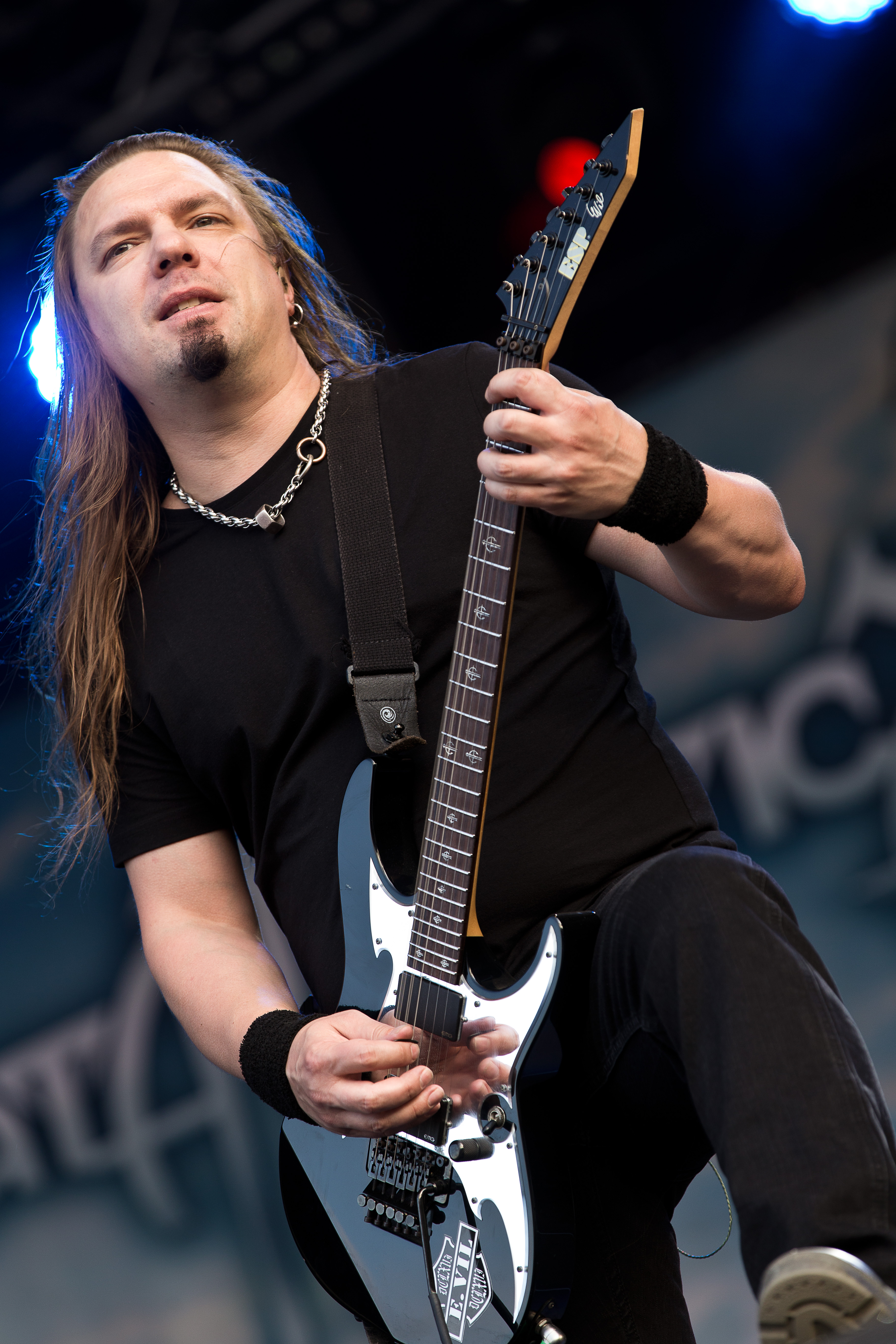 The Finnish power metal band Sonata Arctica at the Rockharz Open Air 2016 in Ballenstedt/Germany.